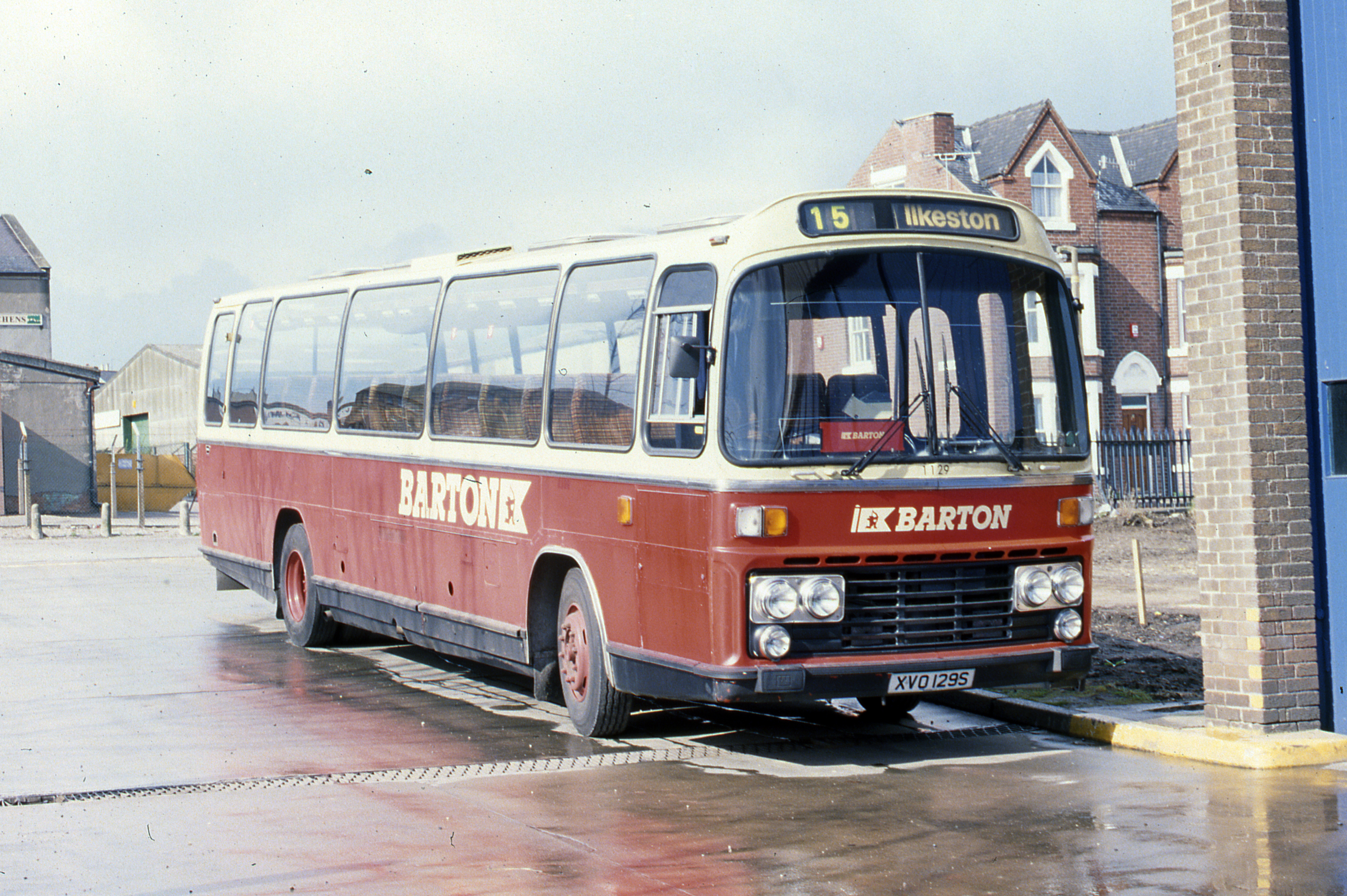 Barton Buses Leyland Leopard / Plaxton Supreme III coach 1129 (XVO 129S), new to Trent in 1978 as 129, pictured outside Ilkeston depot during spring 1993.